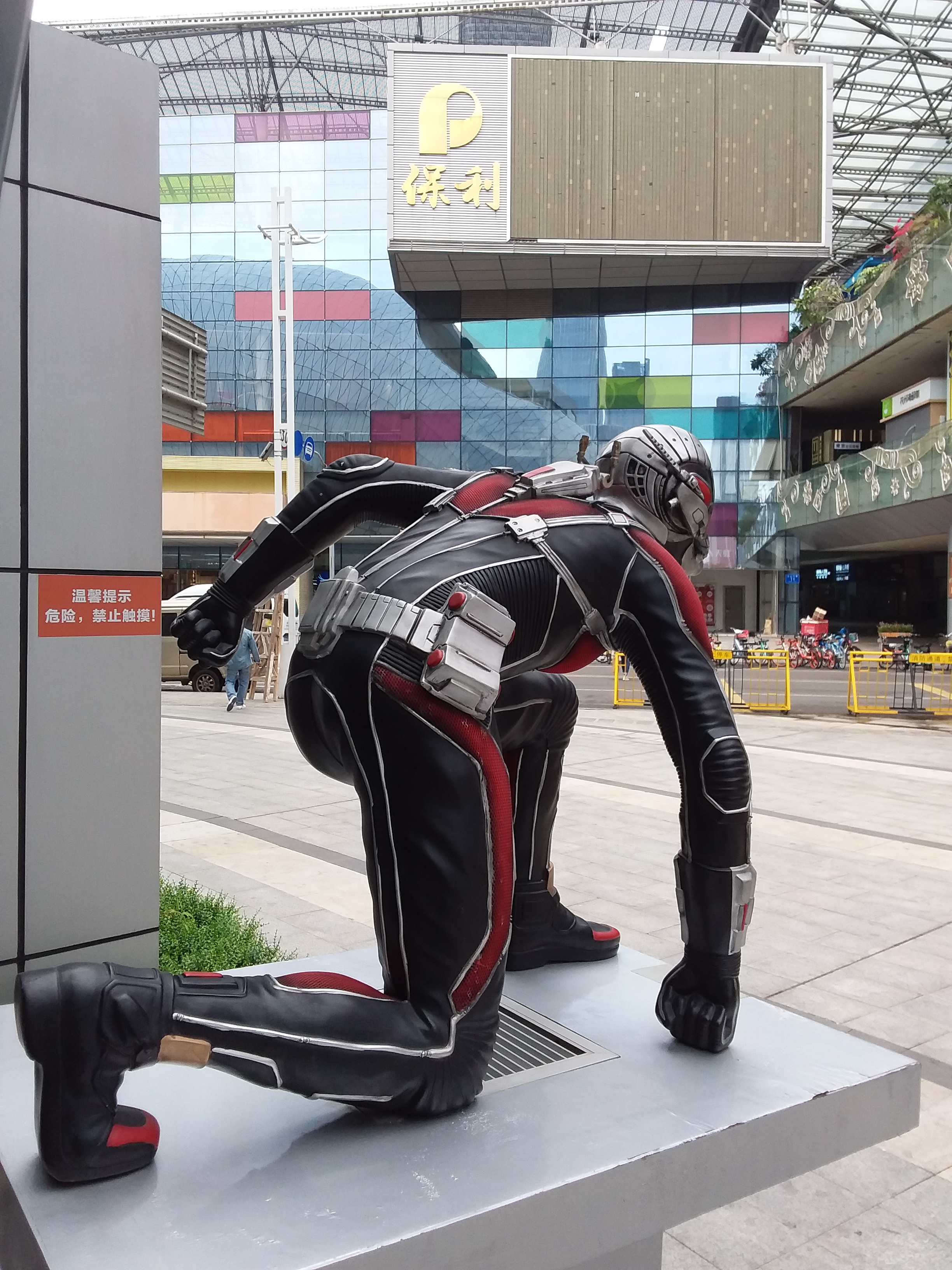 SZ Nanshan 文心6路 Wenxin 6th Road 海德2路 Haide 2nd Road 保利文化廣場 Poly Culture Square Centre 深圳保利國際影城 Theatre in November 2018